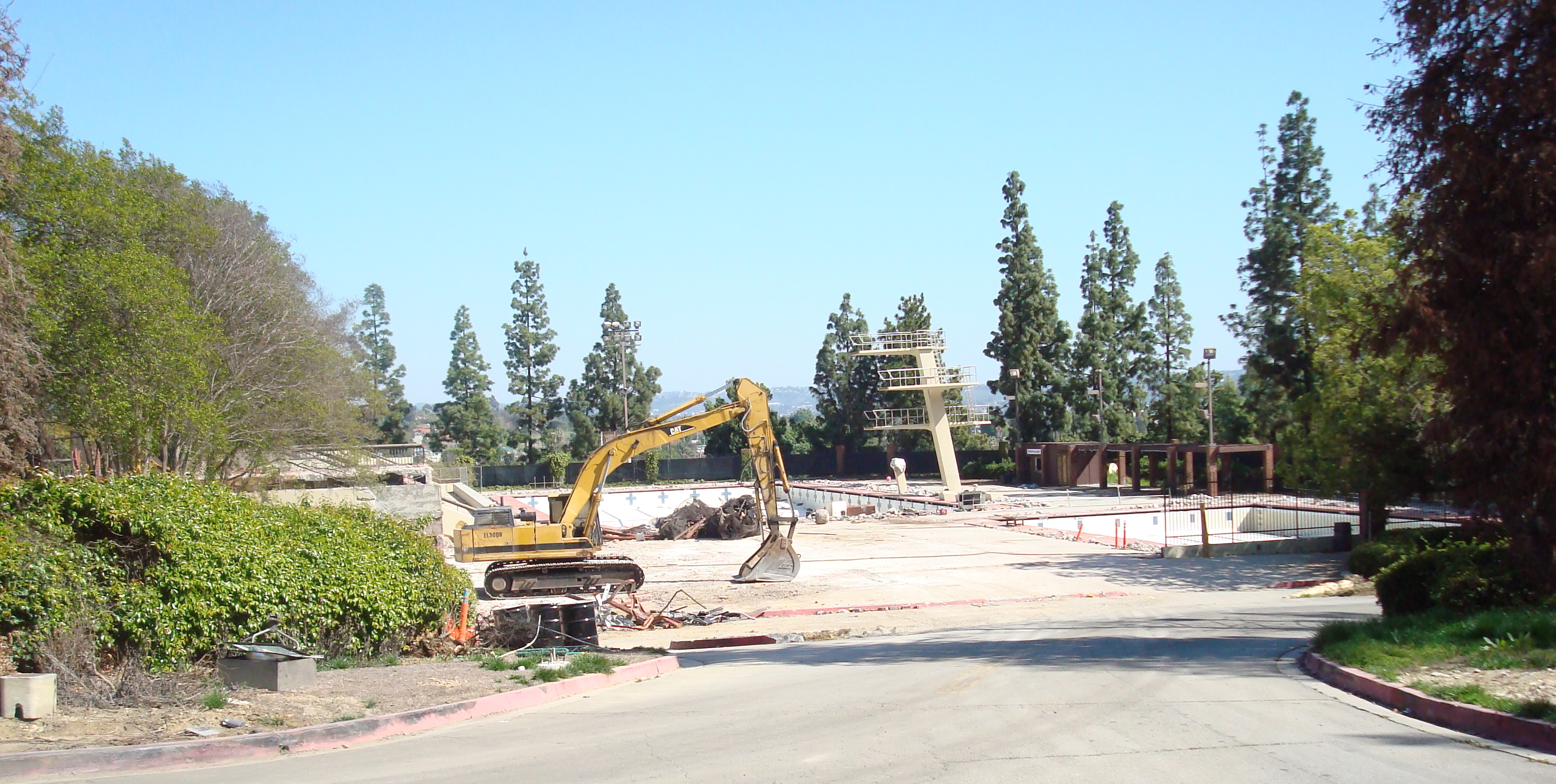 Demolition of the Industry Hills Aquatic Center. The diving tower in the background, is where Rodney Dangerfield famously did his “Triple Lindy” dive in the 1986 film Back to School.